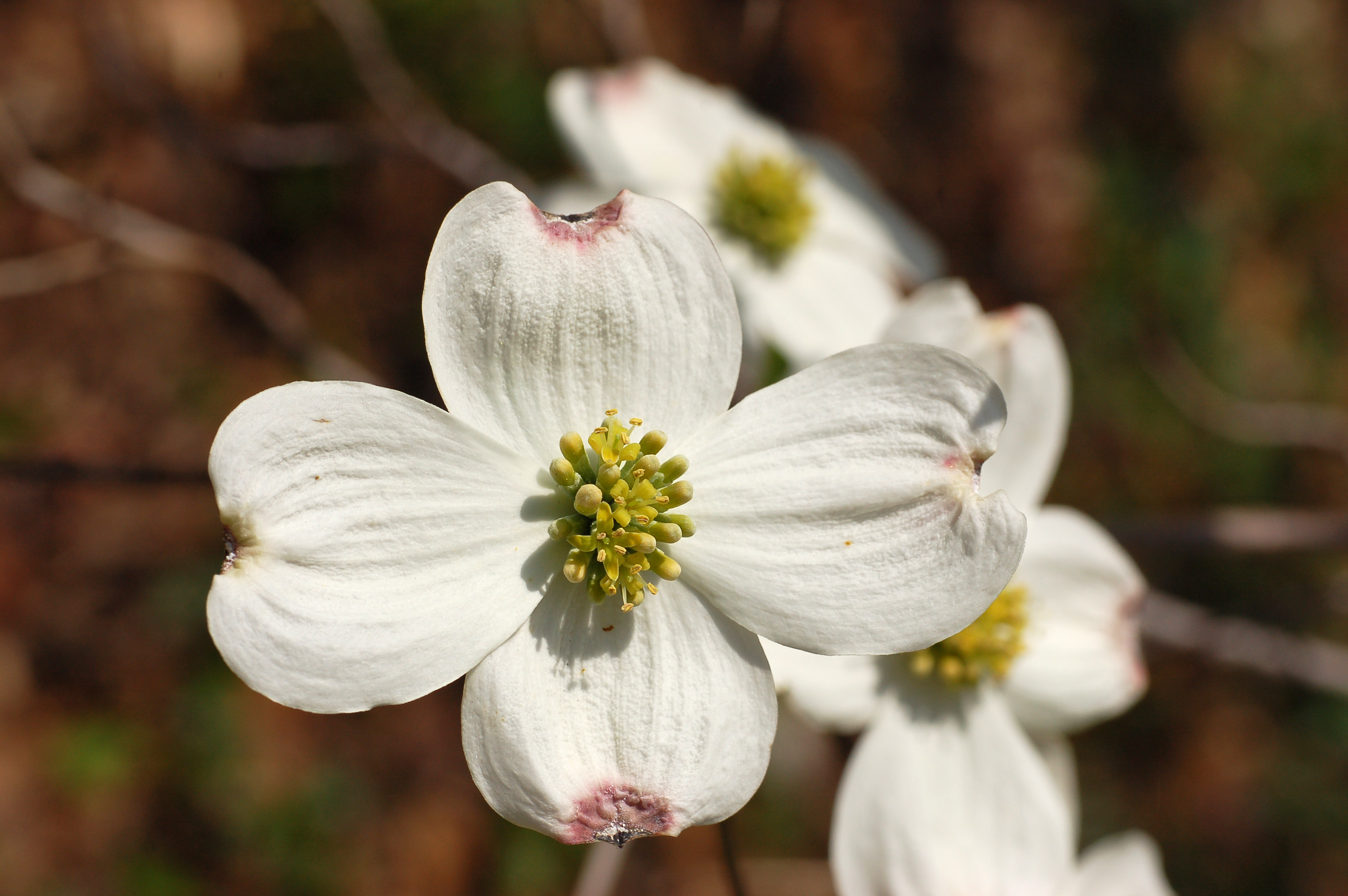 Photograph of a flower a tree that is probably a Flowering Dogwooden (Cornus florida en ). Photo taken at the Mt. Cuba Center where it was identified.